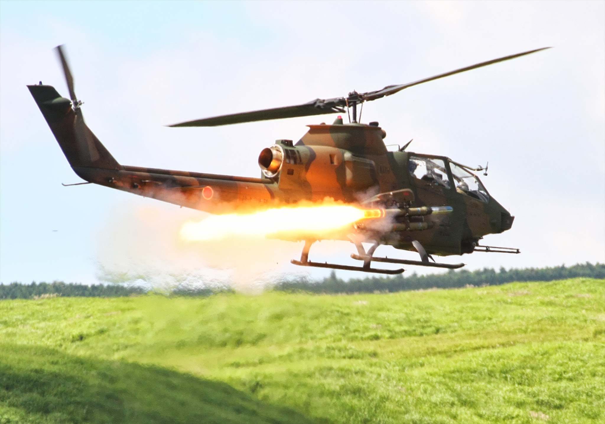 Title ヘリ射撃.jpg Album 富士総合火力演習・そうかえん 前段演習・ヘリ火力（ＡＨ－１Ｓ）